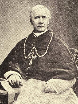 1897 History of St Margaret's Convent Edinburgh and auto biog of Ann Agnes Xavier Trail. Now part of Gillis Centre